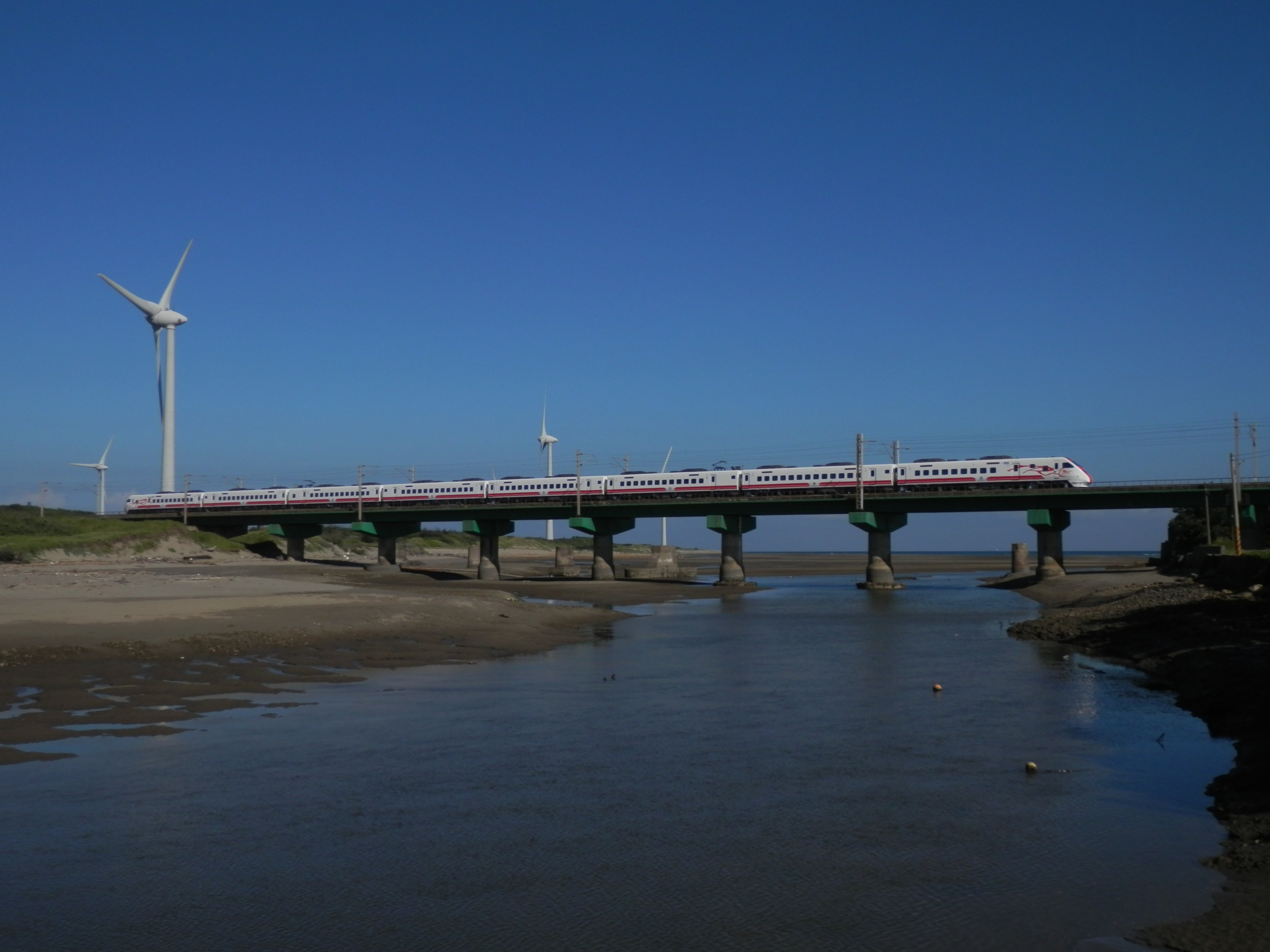 TRA Tze-Chiang Ltd-Exp Type EMU TEMU2000 at Trunk Line (Coast Line) between Baishatun Station and Longgang Station